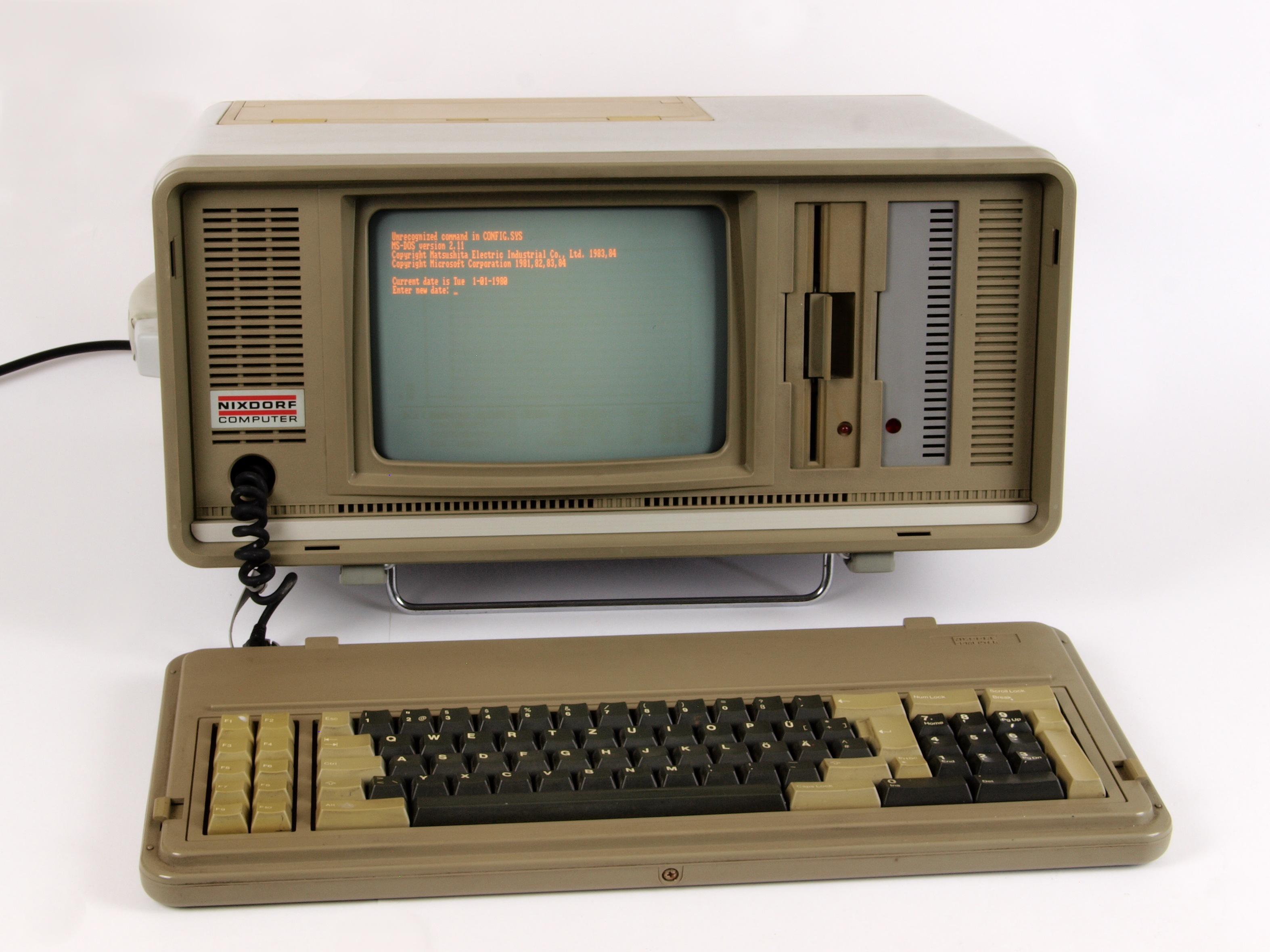 NIXDORF Computer 8810/25 PC 02. CPU Intel 8088 4.77 MHz, 256 KB main memory. MS-Dos compatible, portable PC with 5.25 inch floppy disk drive, 20 MB hard disk, 9 inch amber monitor and integrated thermal printer. Unit number 3670 01, year of construction 1984. Unit in working position. Plastic parts partly yellowed by exposure to sunlight. Height: 22 cm (8.66 in); Width: 50 cm (19.68 in); Depth: 34 cm (13.38 in) dimensions QS:P2048,22U174728;P2049,50U174728;P5524,34U174728 Weight: 16.3 kg (36.20 lb)